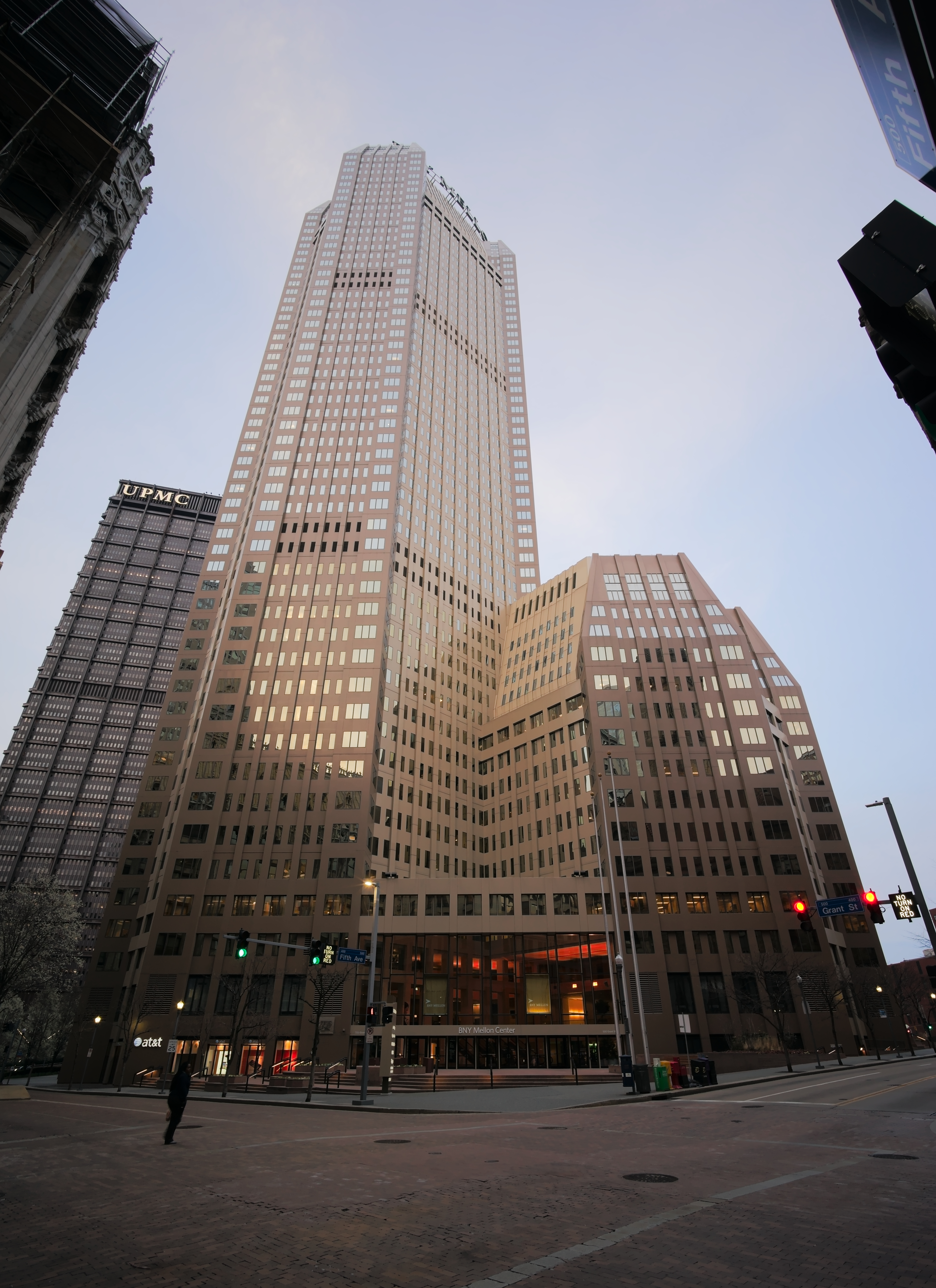 The BNY Mellon Center in Pittsburgh.